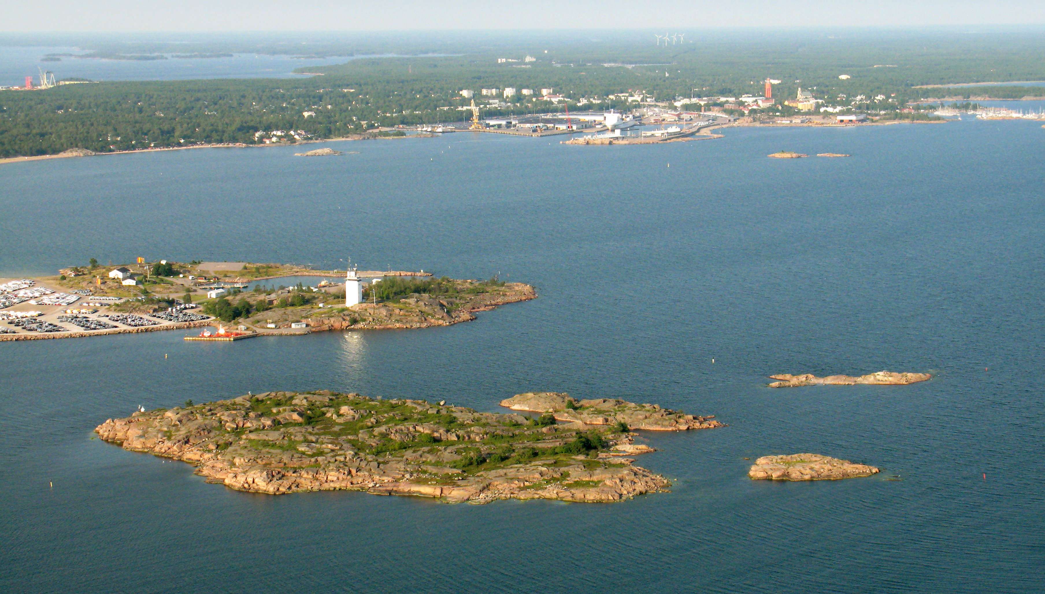 Tullholmen (gäddtarmen) in Hanko, Finland